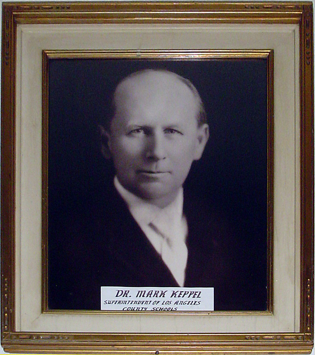 Digitally restored version of Mark_Keppel_Photograph.jpg